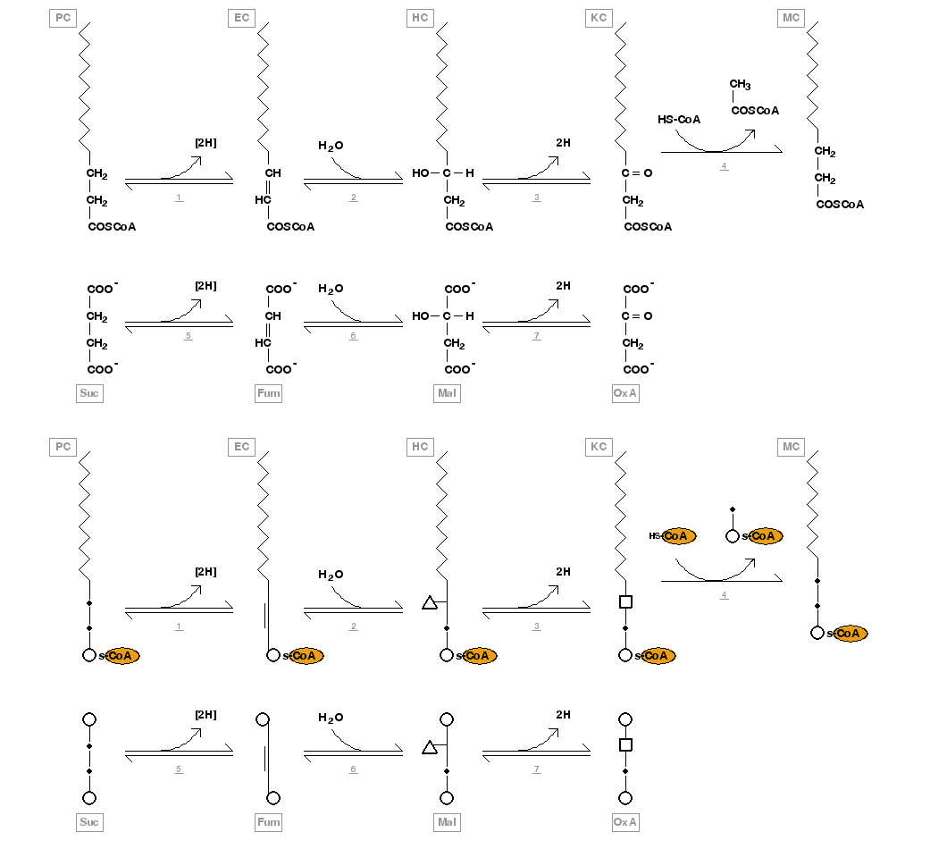 Comparison between beta oxidation and krebs cycle